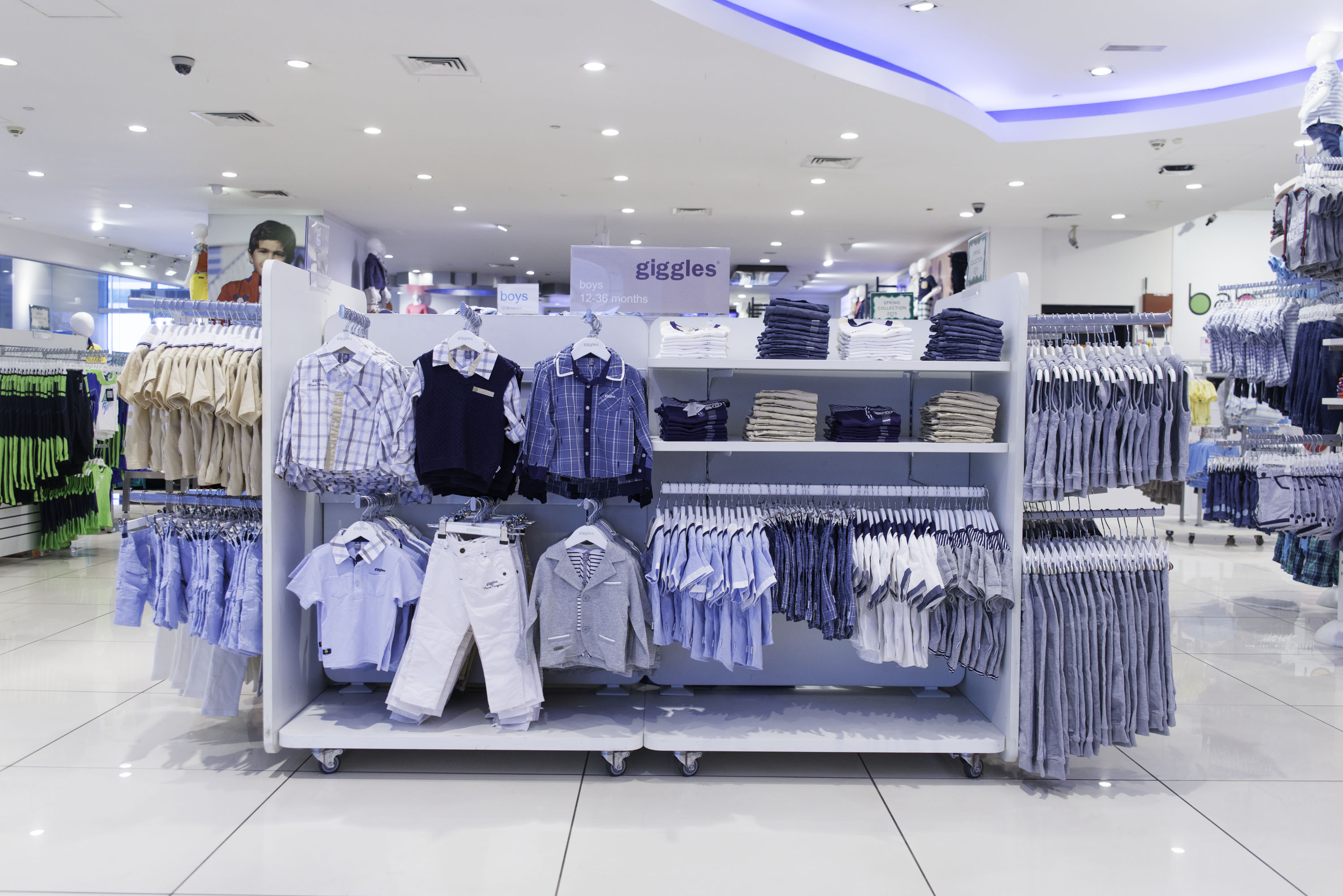 Store Image